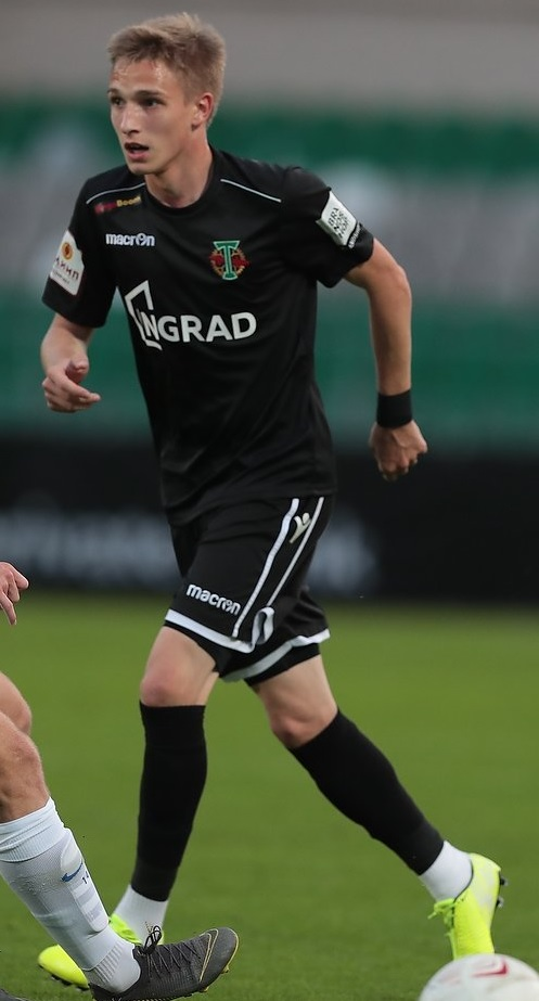 Ilya Samoshnikov with FC Torpedo Moscow in a game against FC Avangard Kursk.